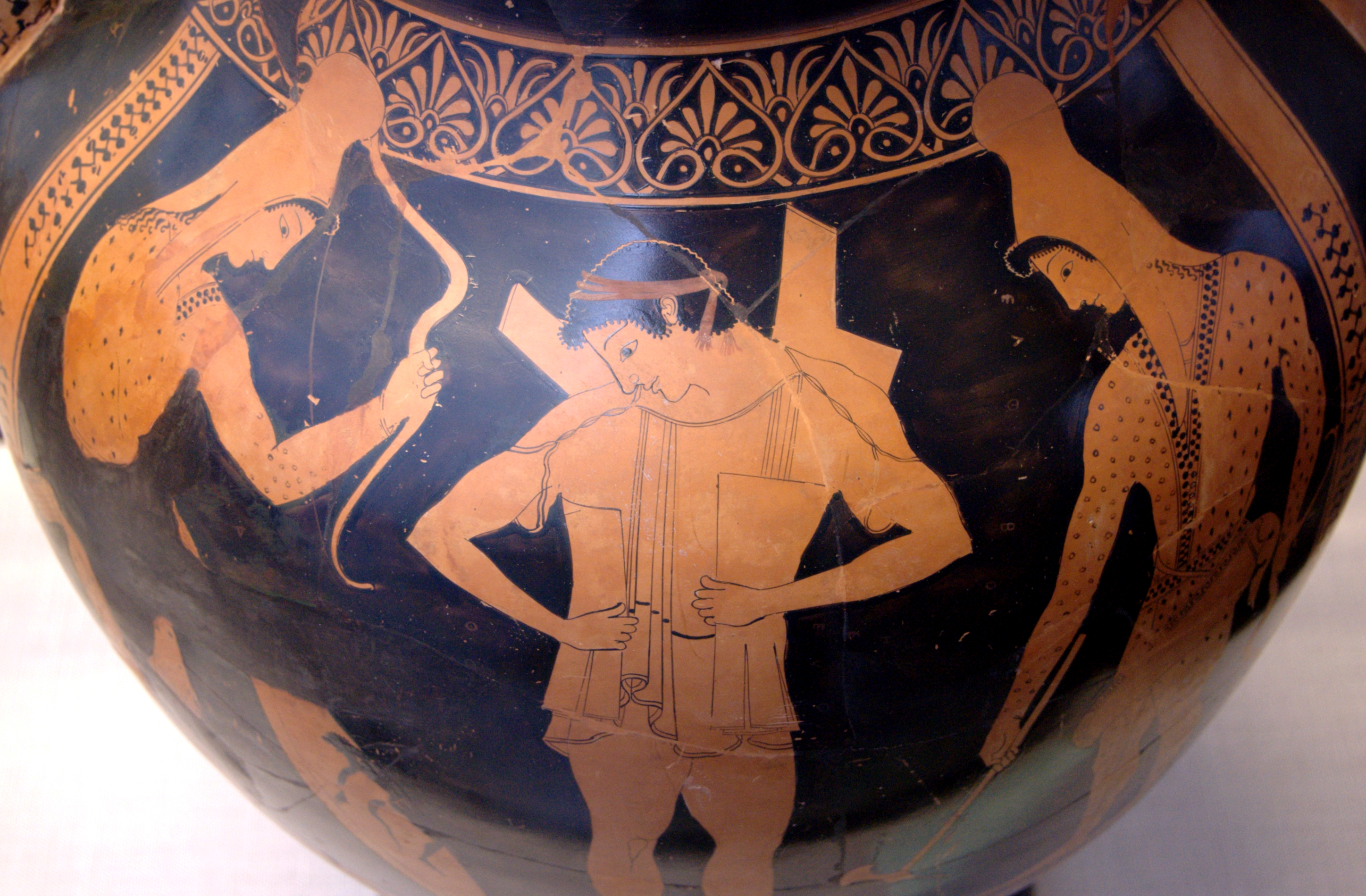 Hoplite putting his armor on, surrounded by two Scythian warriors. Inscriptions: ΘΟΡΥΚΙΟΝ (“armored”) for the hoplite, ΕΥΘΥΒΟΛ[Ο]Σ (“blow”?) for the Scythian archer (right). Side A of an Attic red-figure belly-amphora. From Vulci.